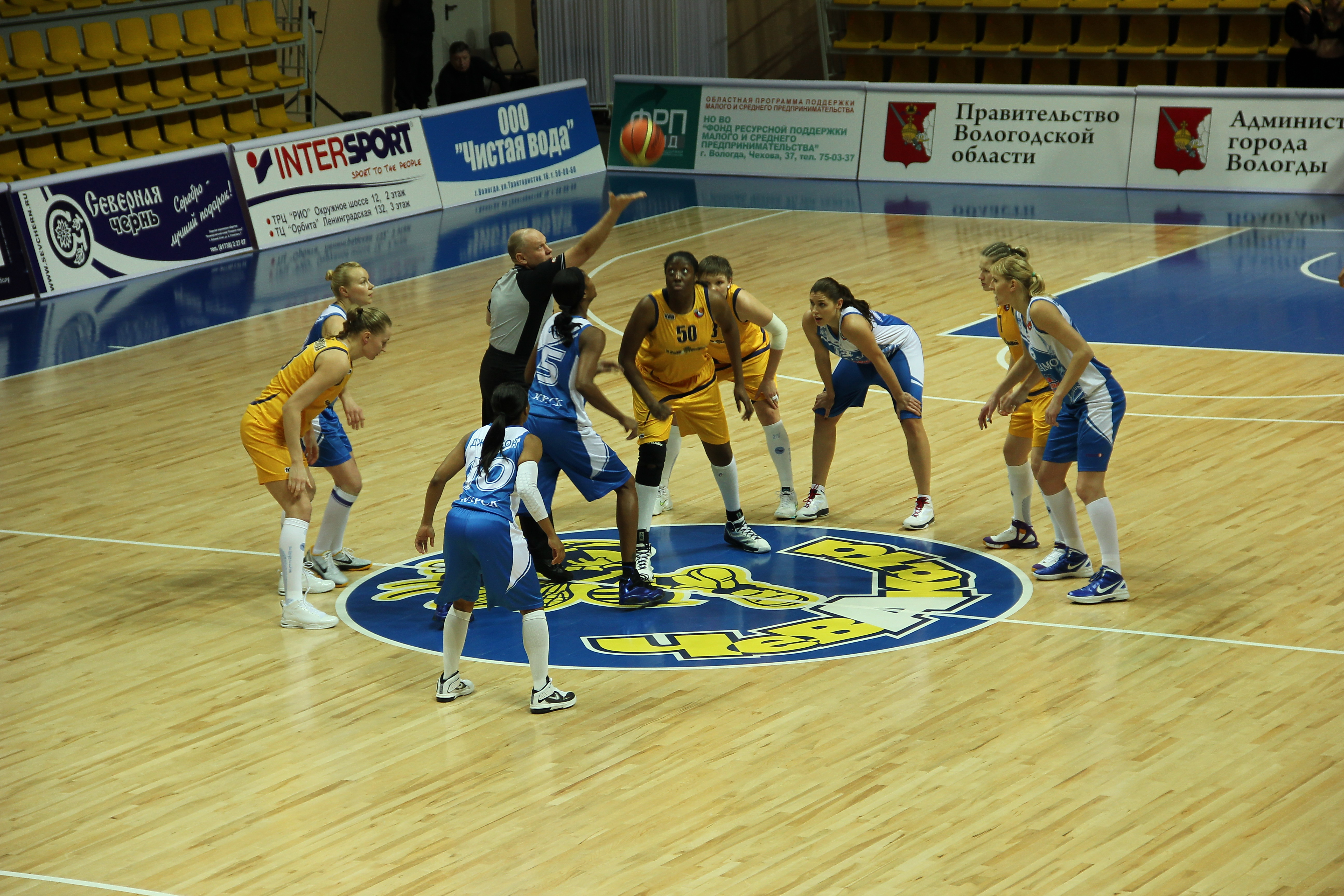 Russia, «Vologda-Chevakata» vs «Dynamo» (Kursk)